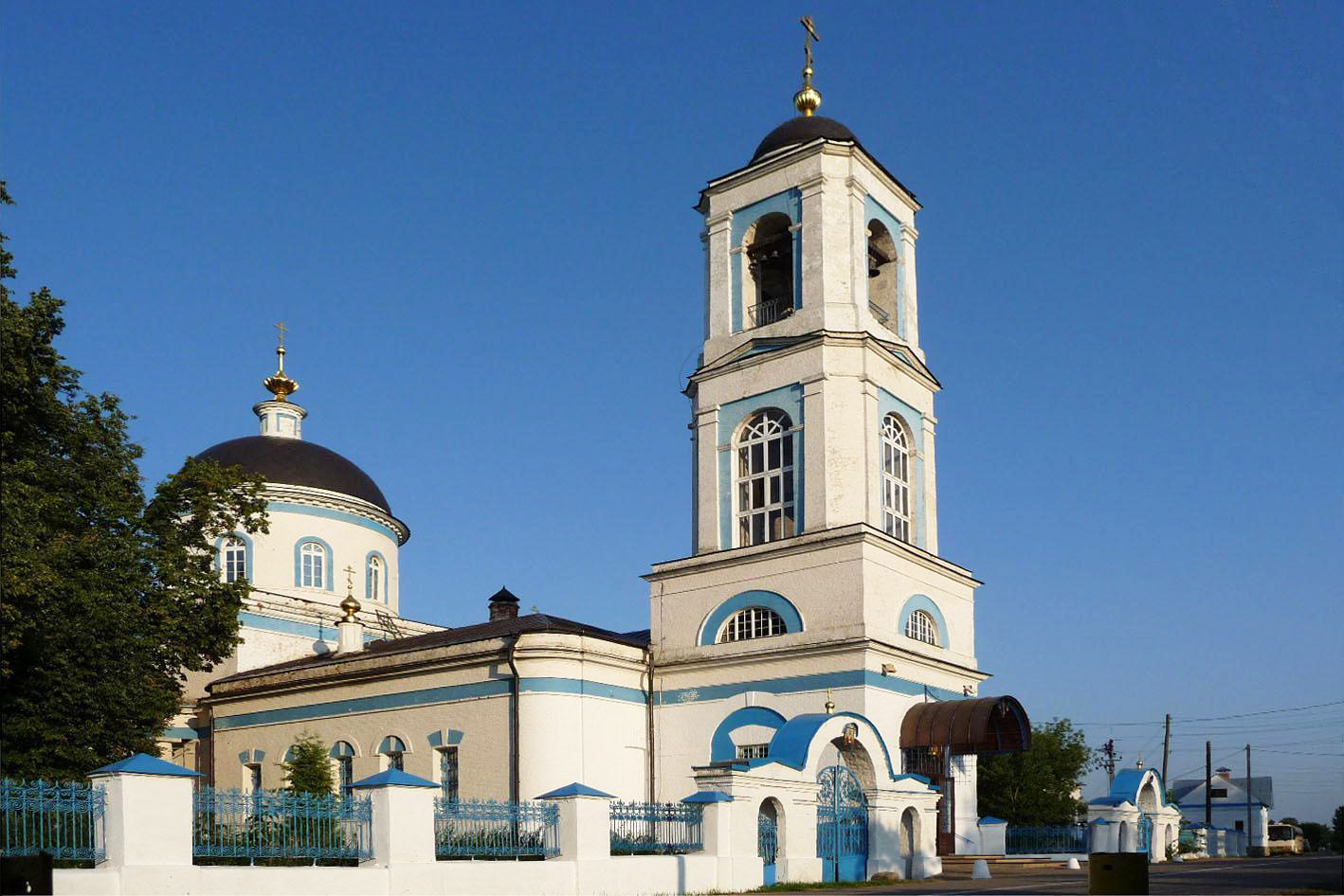 Church of the Theotokos of Tikhvin (1839). The village of Dushonovo. Shchyolkovsky District, Moscow oblast, Russia.